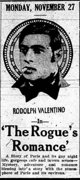 Newspaper ad for the American film A Rogue's Romance (1919) with Rudolph Valentino, playing at the Comet Theatre, on page 4 of the Nov. 24, 1922 St. Loius Argus.